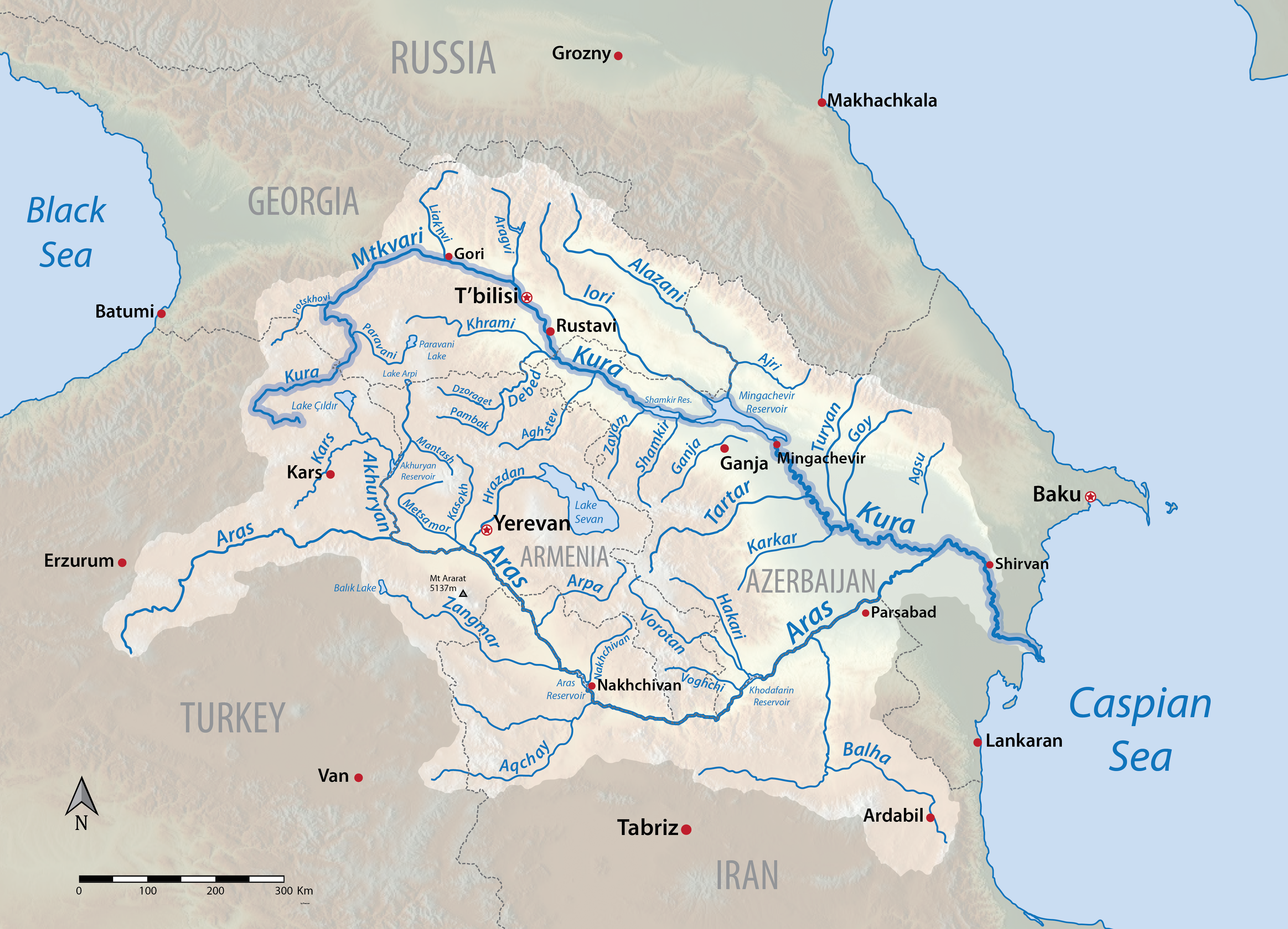 Map of the Kura (Mtkvari) river system in Armenia, Azerbaijan, Georgia, Iran and Turkey. More accurate version of my earlier map File:Kurarivermap.jpg. Shaded relief data from US Geological Survey.